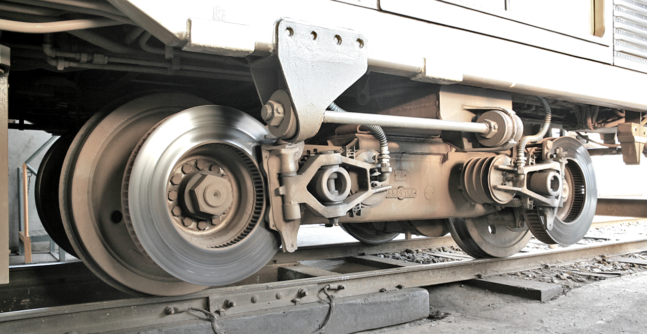 Type TS-701 bogie truck of the Mizuma Railway Type 1000 EMU.